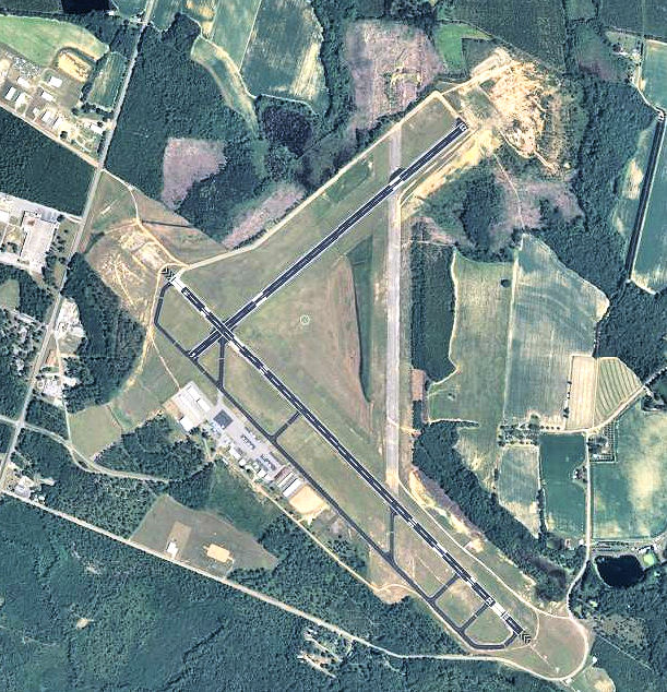 USGS digital orthophoto of Statesboro-Bulloch County Airport in the U.S. state of Georgia